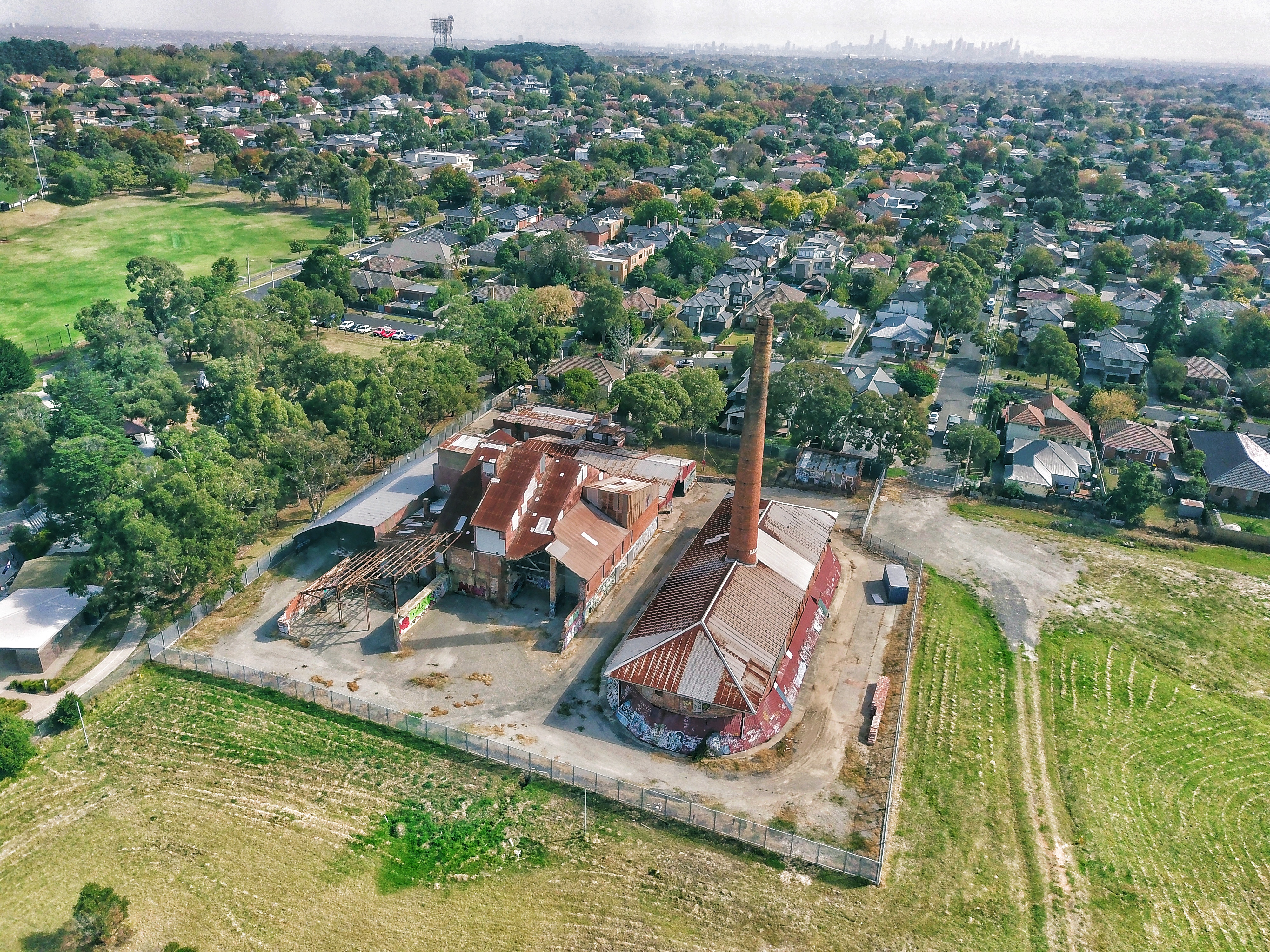 Aerial perspective of the former Standard Brickworks at Federation Street Box Hill. Taken April 2018.